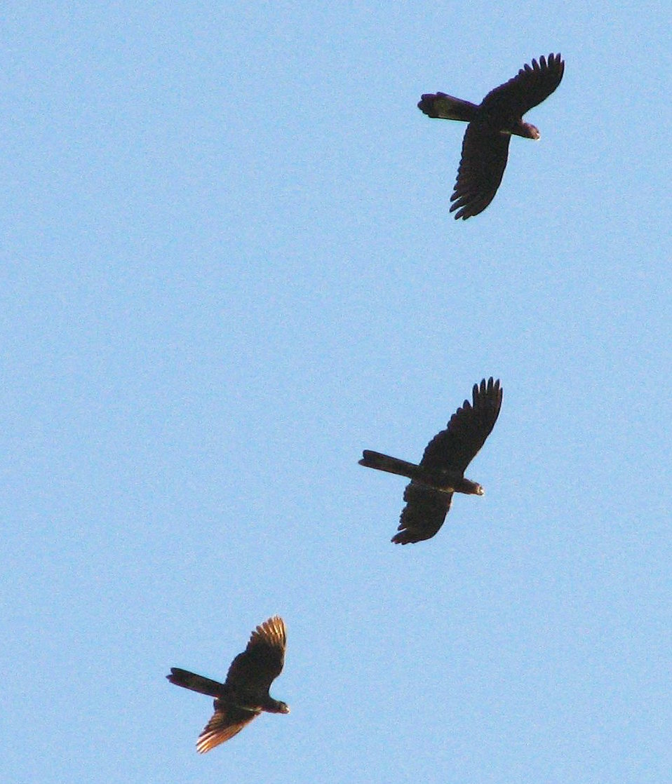 Three Yellow-tailed Black Cockatoos flying in Tasmania, Australia.